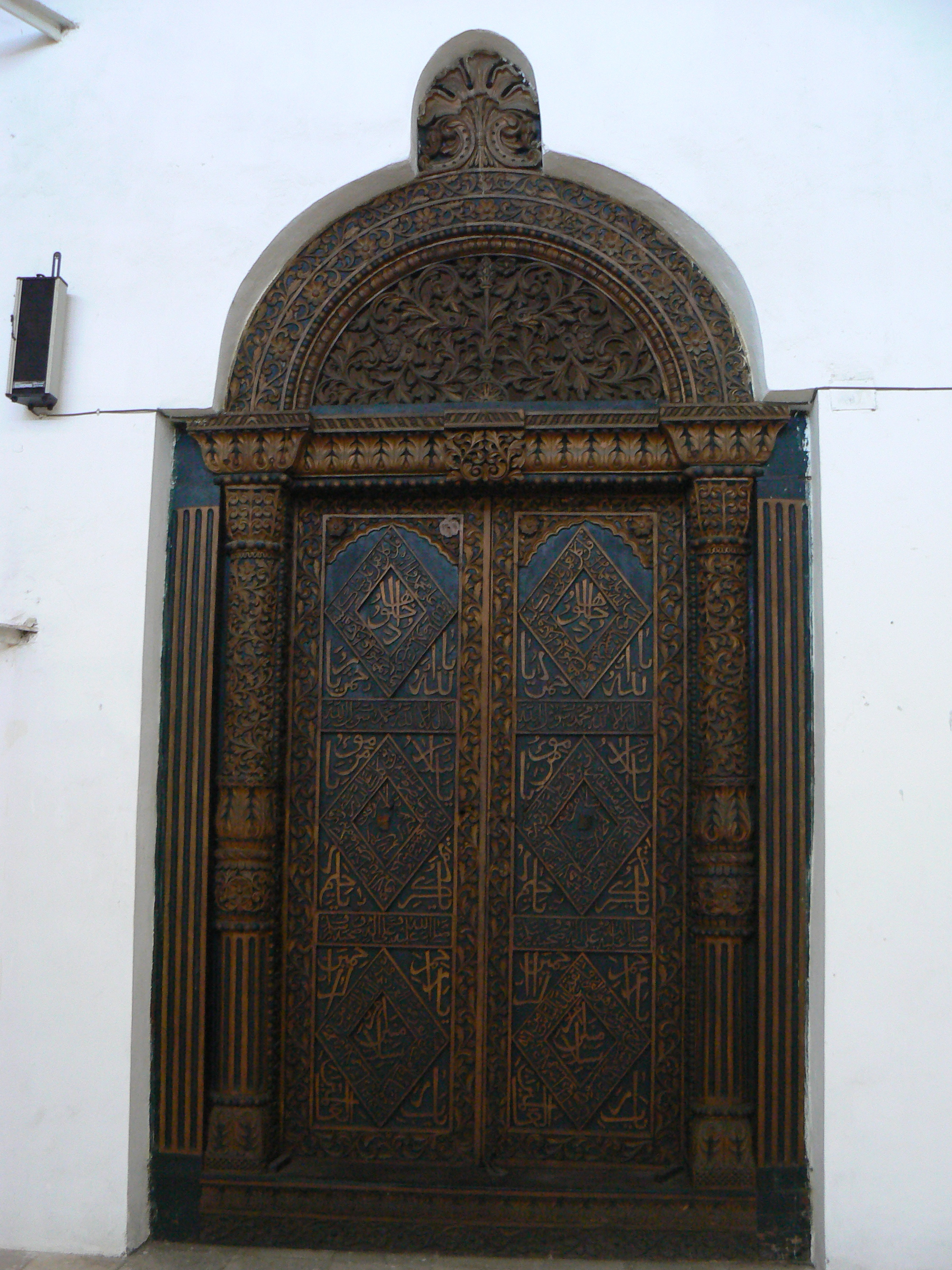 Carved door with Arabic calligraphy in Zanzibar